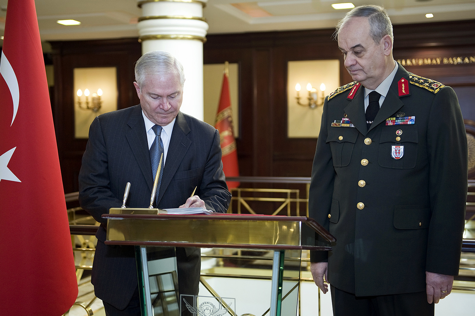 U.S. Defense Secretary Robert M. Gates signs the guest book before meeting with Turkish Chief of General Staff Gen. Ilker Basbug, right, in Ankara, Turkey, Feb. 6, 2010.